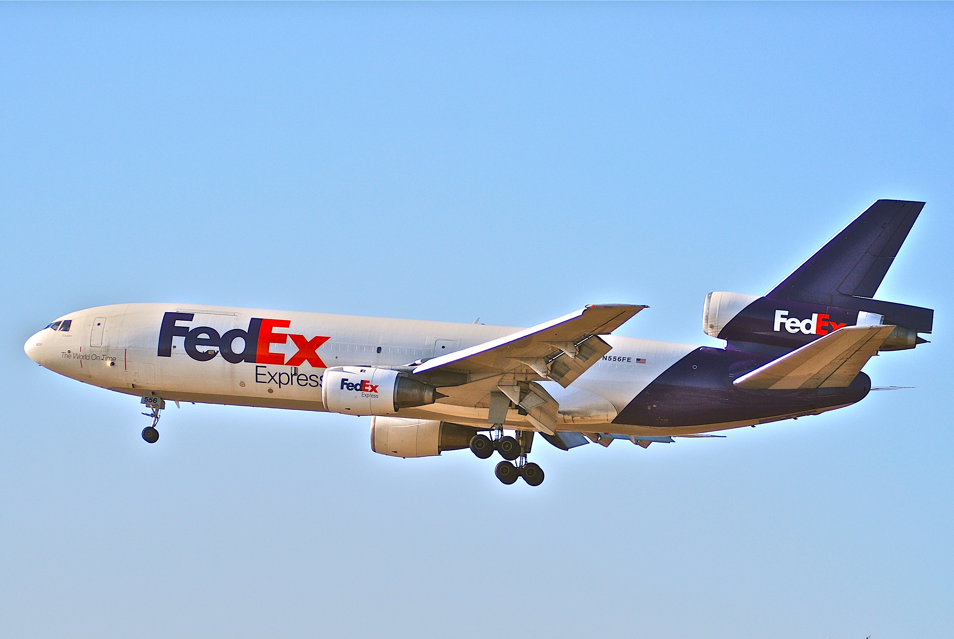 First flight: October 31, 1972...(c/n 46710/ 70) 12/12/1972 National Airlines N68NA 07/01/1980 Pan Am N68NA 01/11/1983 American Airlines N160AA 09/01/1997 Hawaiian Airlines N160AA 13/07/2001 Federal Express N556FE converted to freighter 01/2006